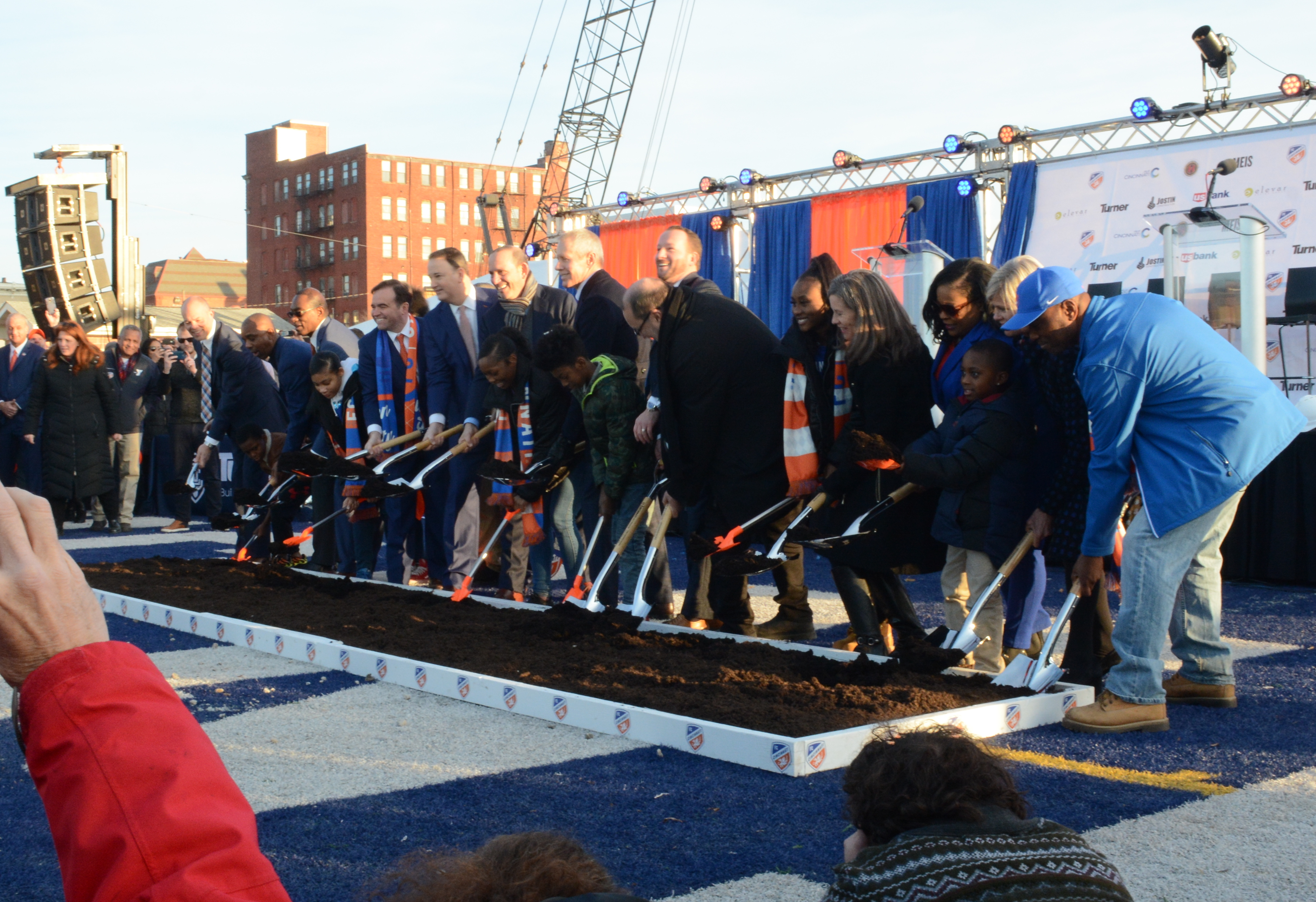 The moment before the ceremonial ground breaking moment at a ceremony held by FC Cincinnati for their new West End Stadium.